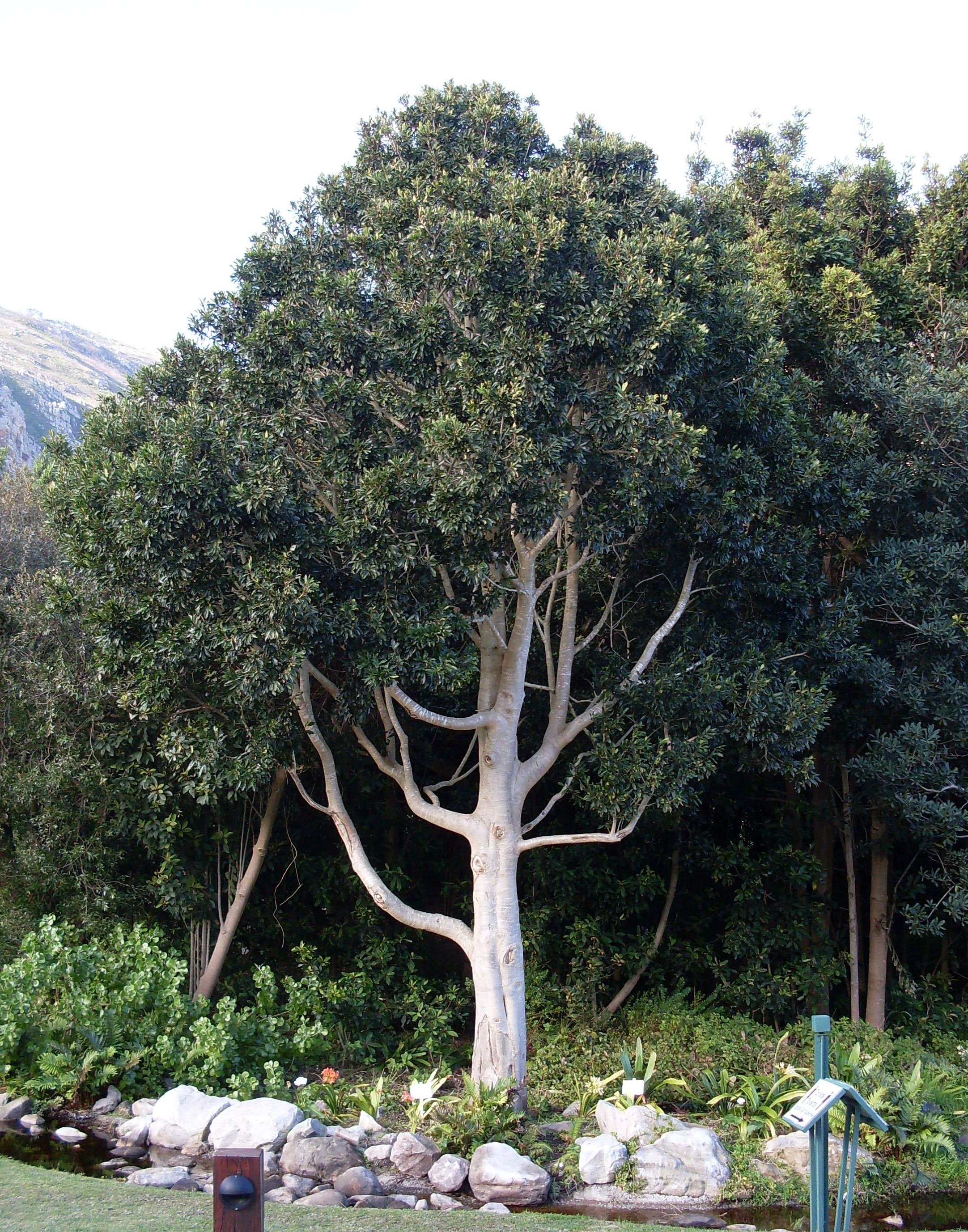 Cape Holly tree. Ilex mitis. South Africa.